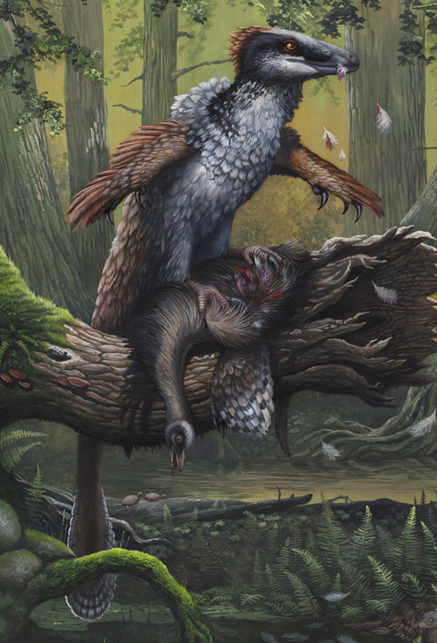 Crop of file in filename